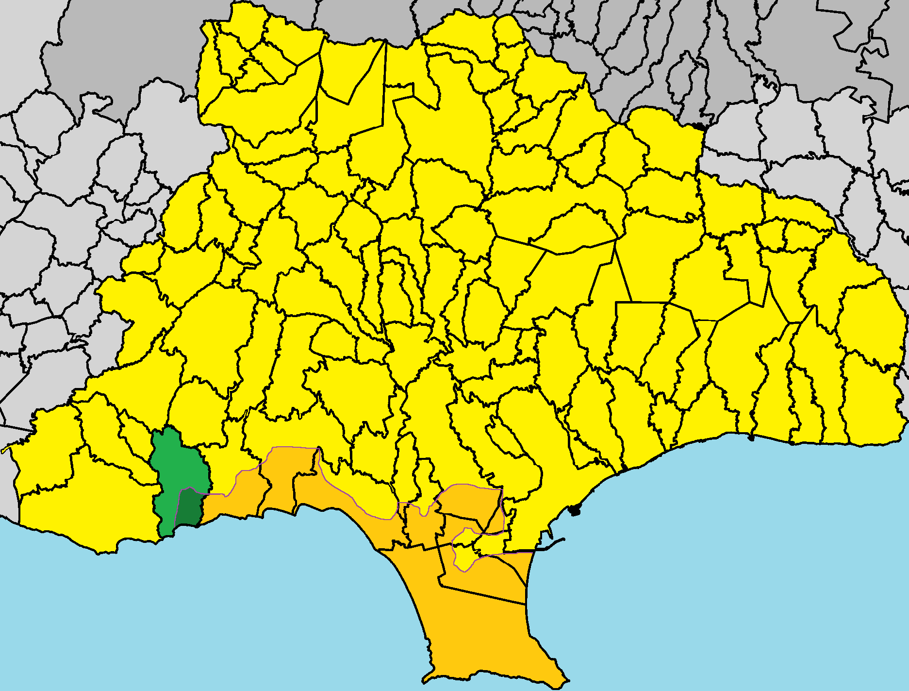 Avdimou in Limassol District.